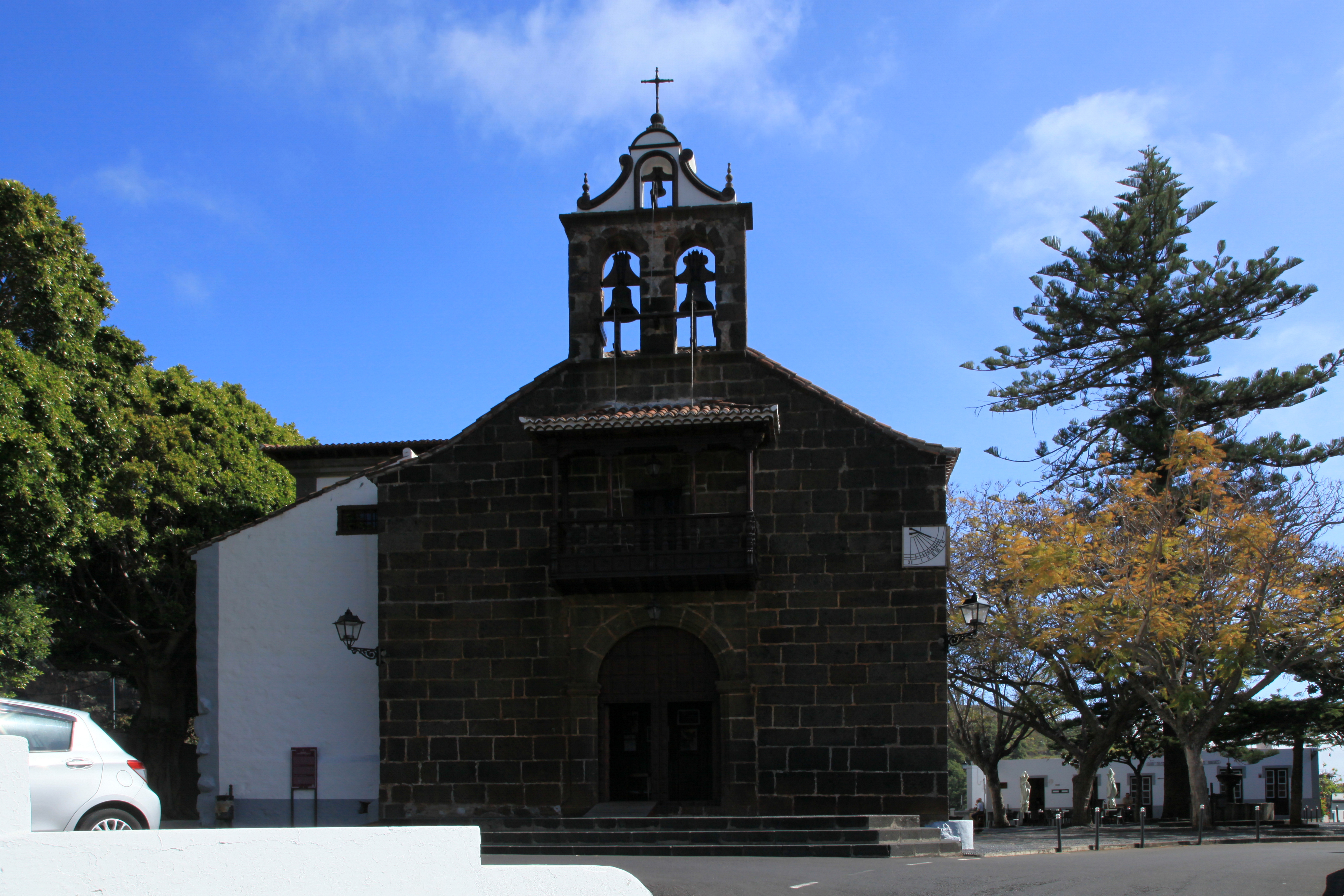 Real Santuario Insular de Nuestra Señora de las Nieves, Plaza de Las Nieves, Caserío Las Nieves in Santa Cruz de La Palma, La Palma, Canary Island, Spain